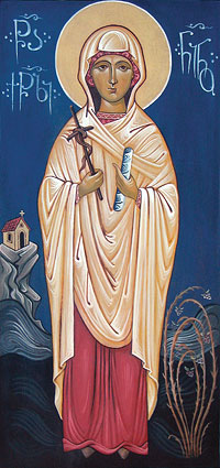 Saint Nino